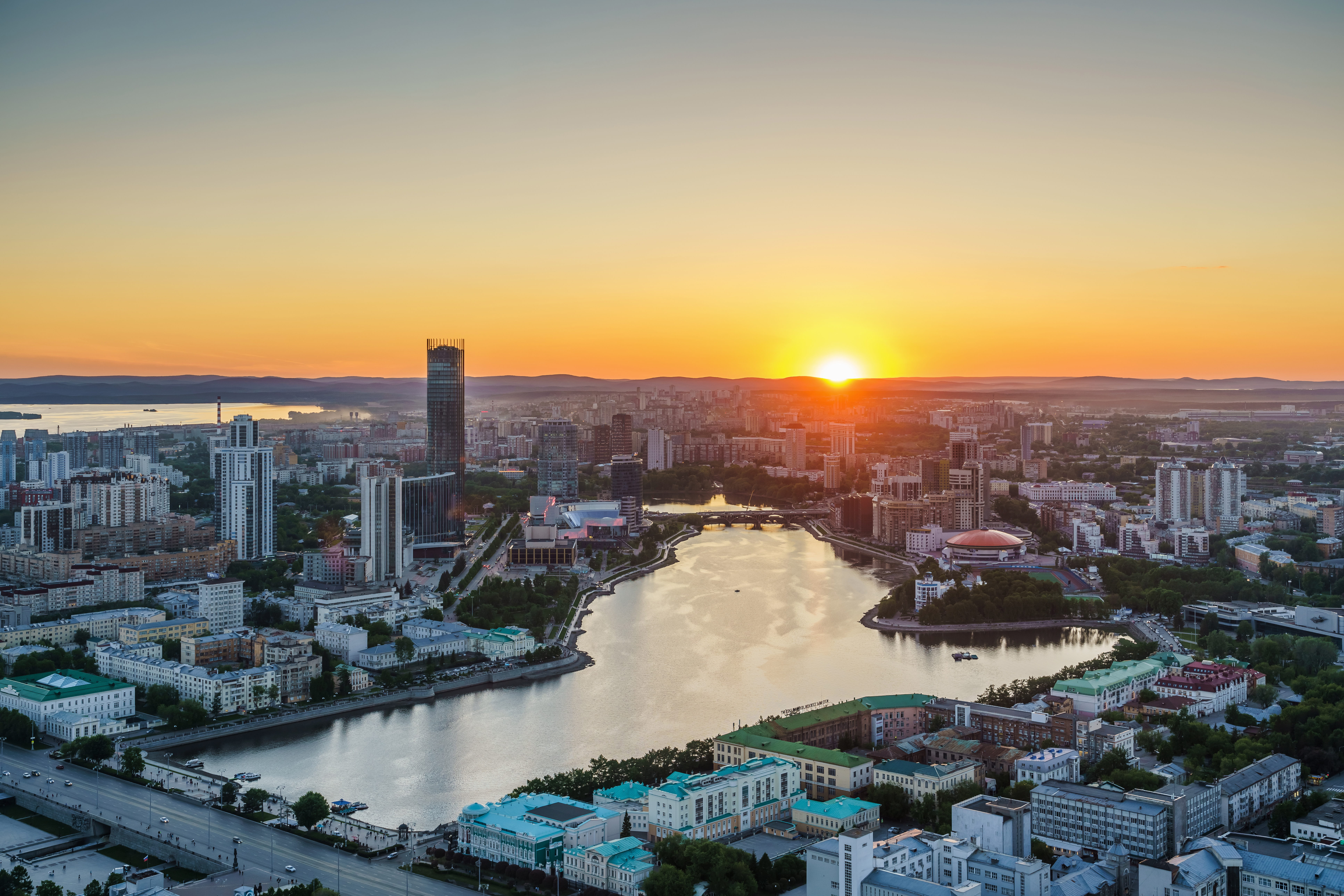 View from VysotSky Tower viewpoint in Ekaterinburg, Russia